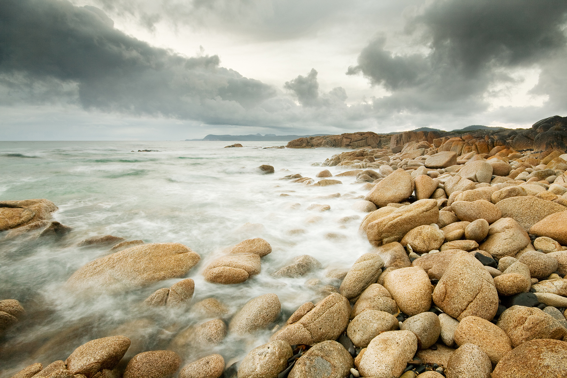 Seascape at Friendly Beaches, Freycinet Peninsula, Tasmania, Australia